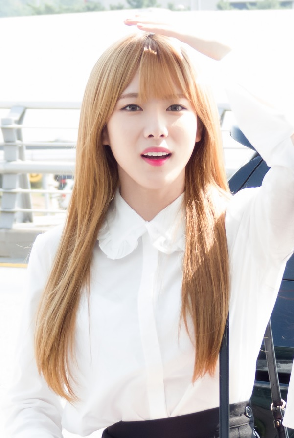 160922 아이비아이 이해인 @ 인천공항 출국&헬로 아이비아이 촬영